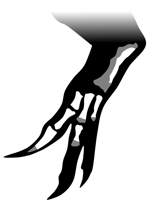 Diagram (based on Aureliano et al. (2018)[1] showing what is known of the manus (hand) of MN 4819-V, a partial spinosaurid skeleton from the Romualdo Formation that might belong to Angaturama.